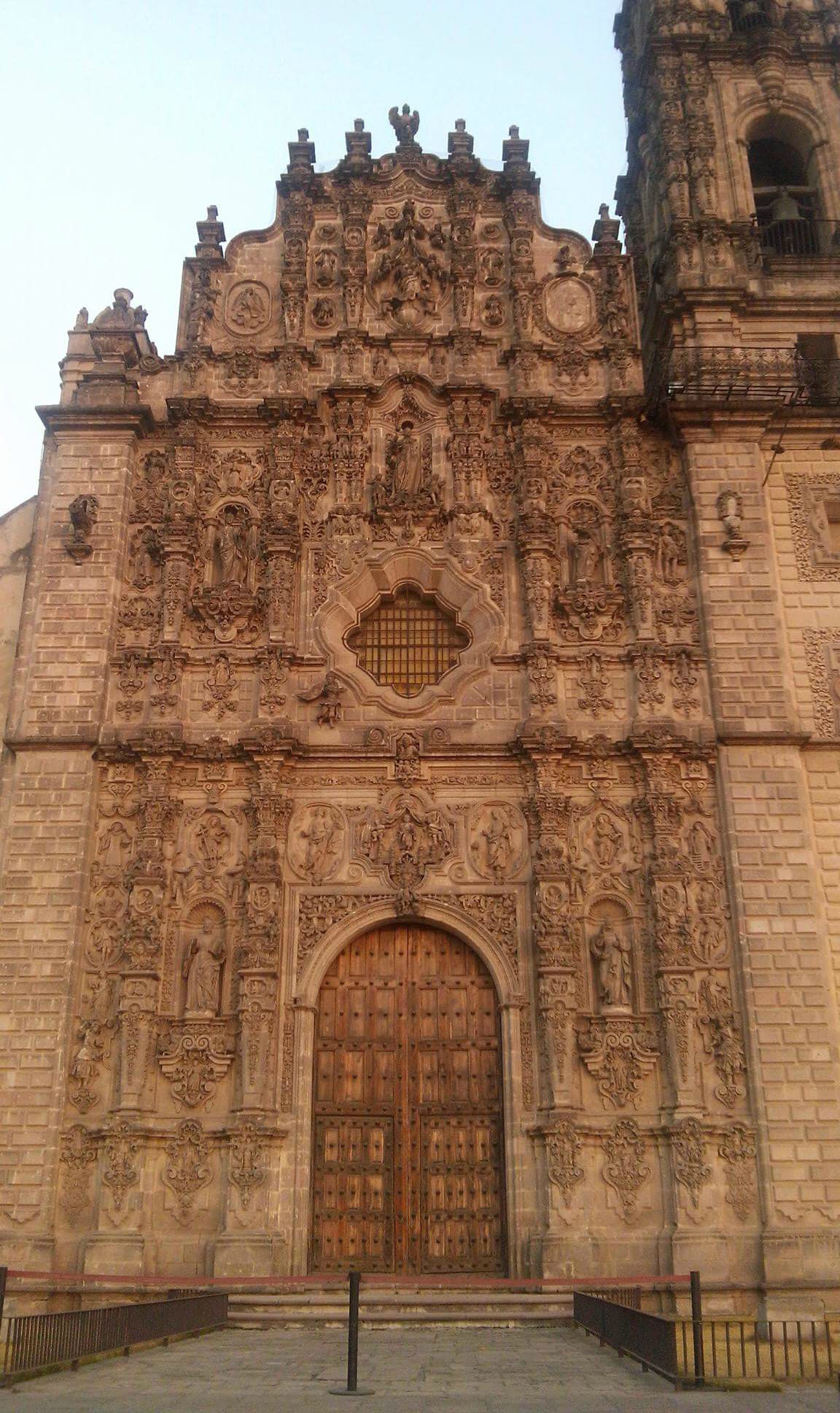 Photo from outside of the Museo Nacional del Virreinato at Tepotzotlán in Mexico state of Mexico in 2018.